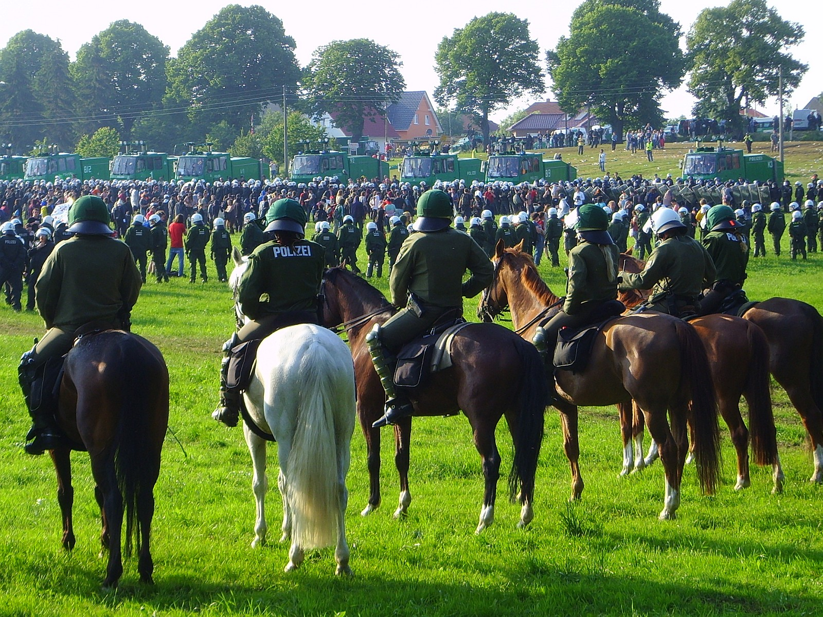 Mounted Police Hannover at the G8 Summit